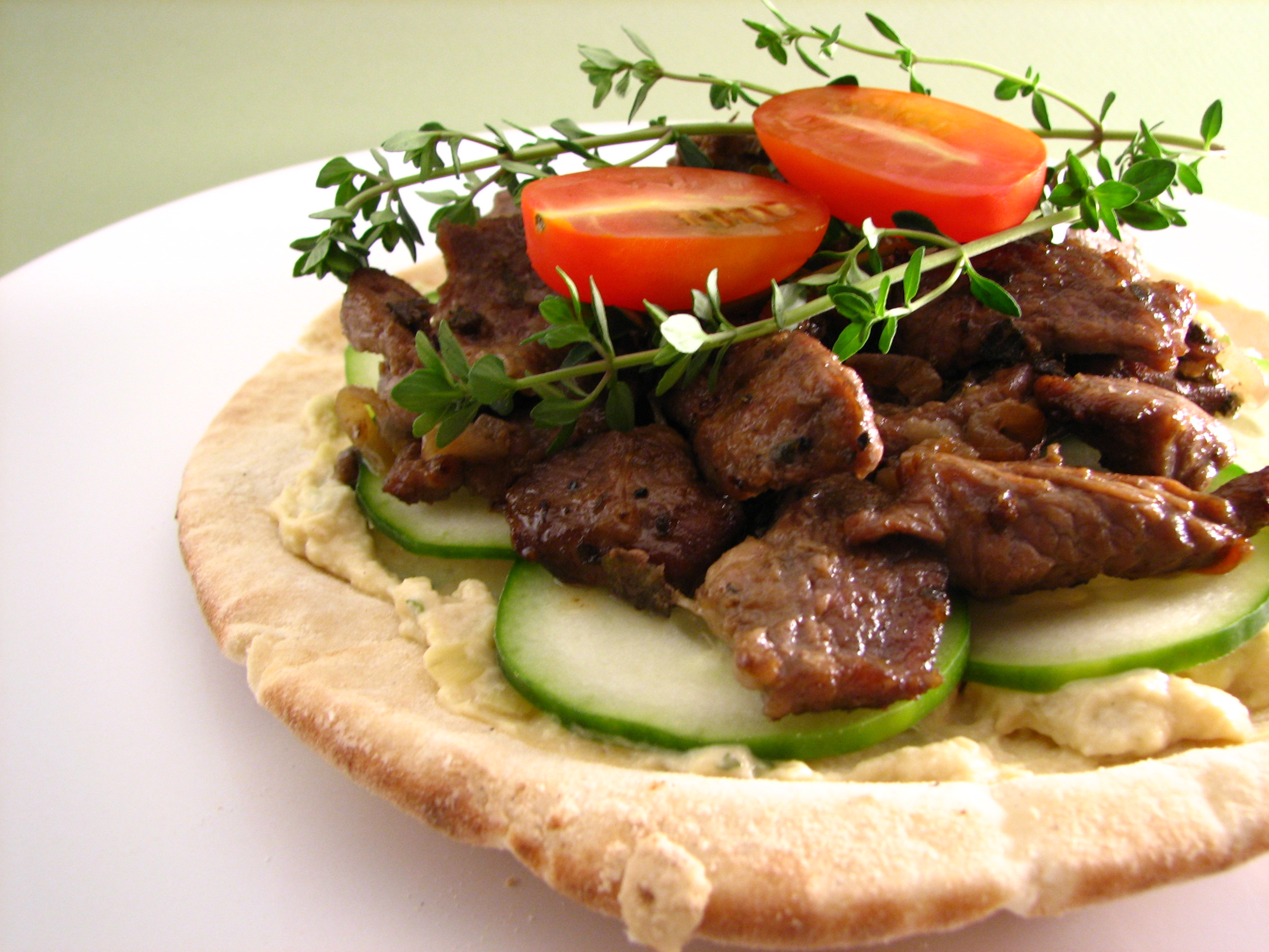 Pita topped with artichoke hummus and lamb